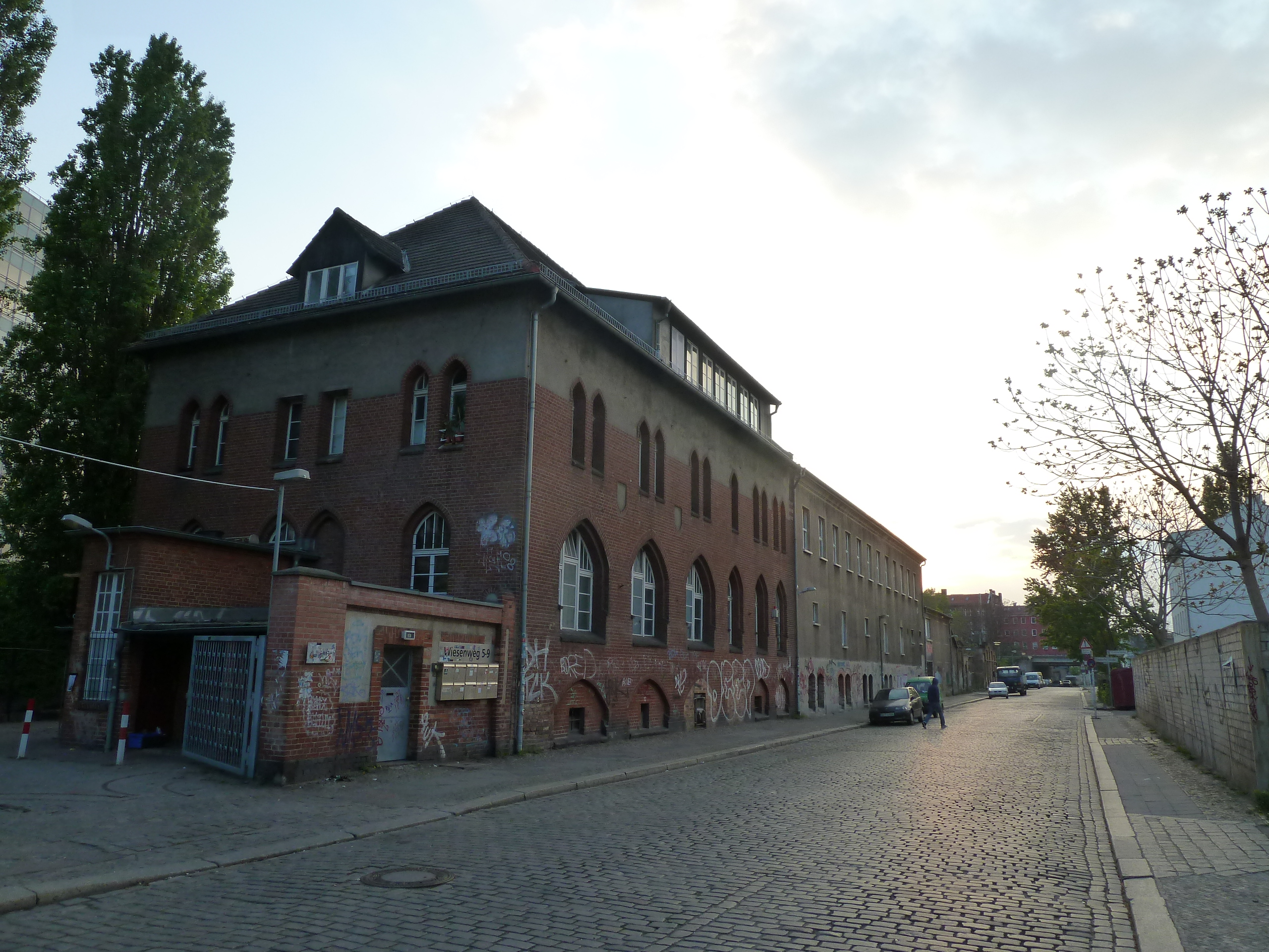 Wiesenweg with theatre "Canteatro" in Berlin-Lichtenberg